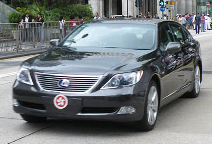 The LEXUS LS600hL - Offical Vehicle of Chief Executive of the Hong Kong Special Administrative Region